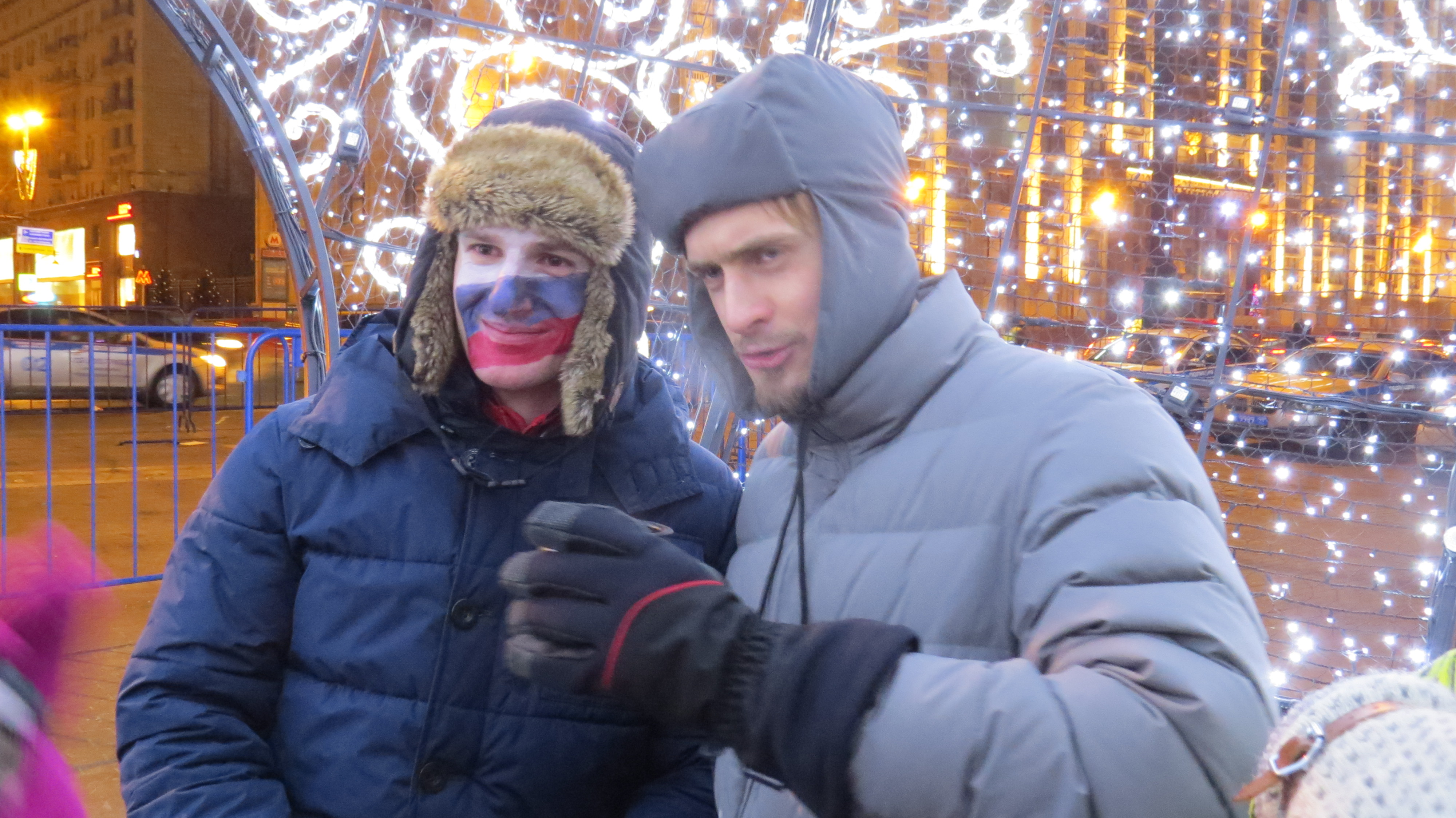 Protest against Navalnys' conviction on 30.12.2014 in Moscow. Christmas sphere on Manezhnaya square.